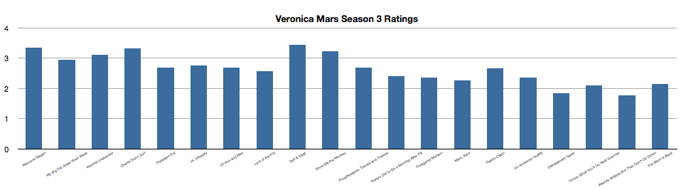 A bar graph for the third season ratings of Veronica Mars, an American television series, according to ABC Medianet.